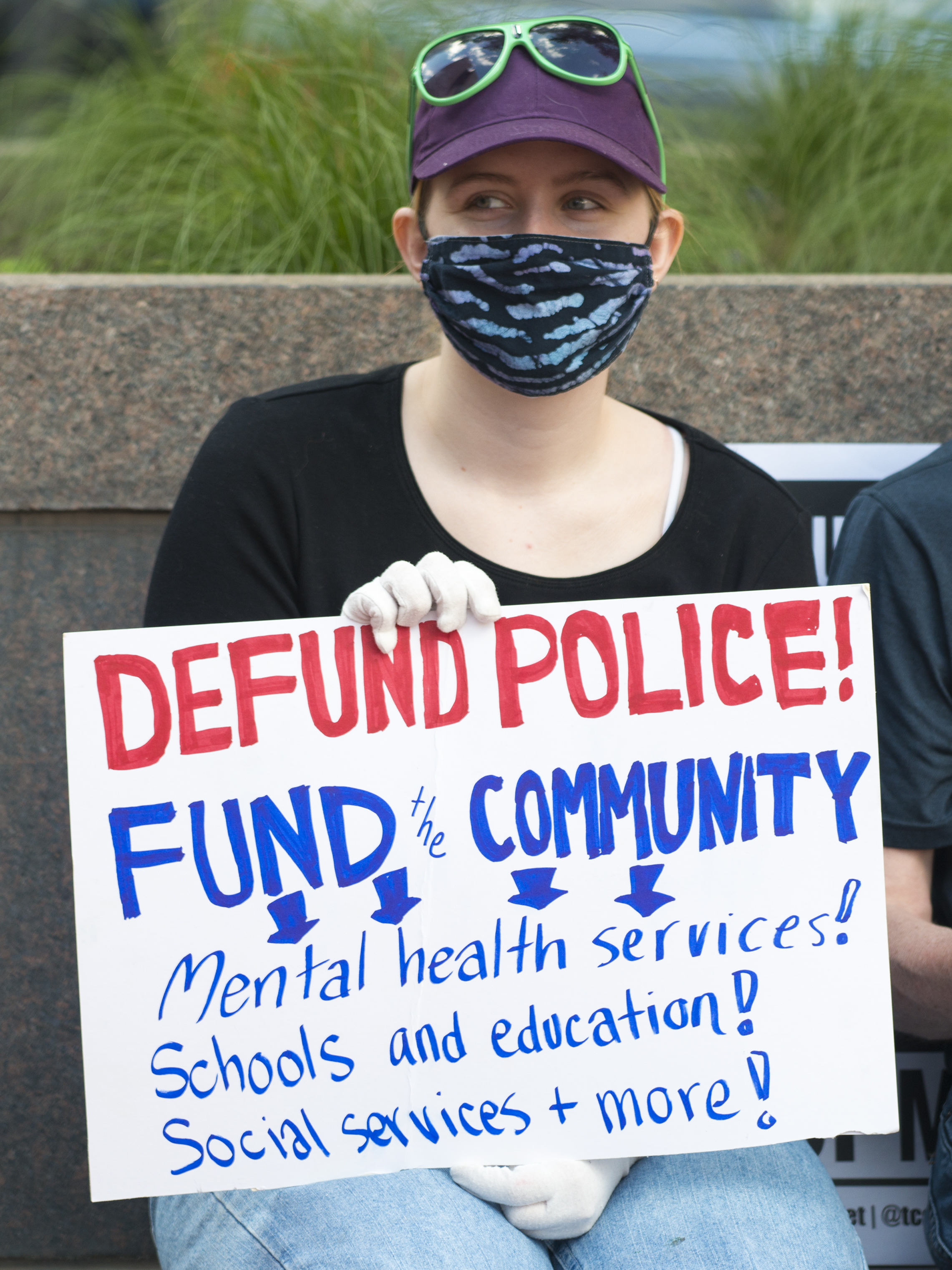 Minneapolis, Minnesota June 11, 2020 Around 1000 people gathered at the Hennepin County Government Building to demand justice for George Floyd. On May 25, Minneapolis Police officers arrested George Floyd, handcuffed him, then put a knee on his neck as he said he wasn't able to breath. George Floyd went unconscious with the knee on his neck despite pleas from bystanders for the police to stop. George Floyd died soon after. 2020-06-11 This is licensed under the Creative Commons Attribution License. Give attribution to: Fibonacci Blue